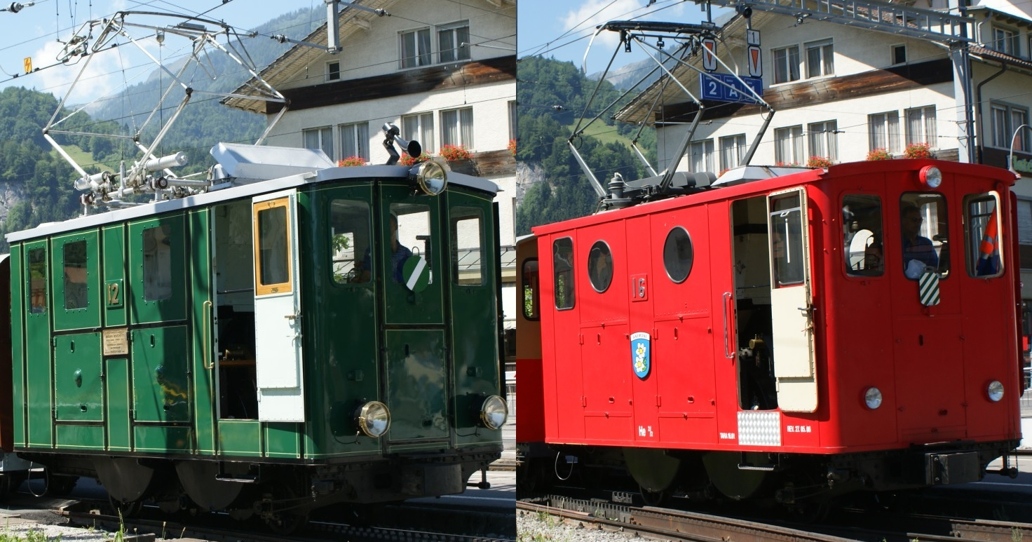 BOB-Schynige Platte railway cog locomotives in Wilderswil, showing old and new form of consecutive train indicator.